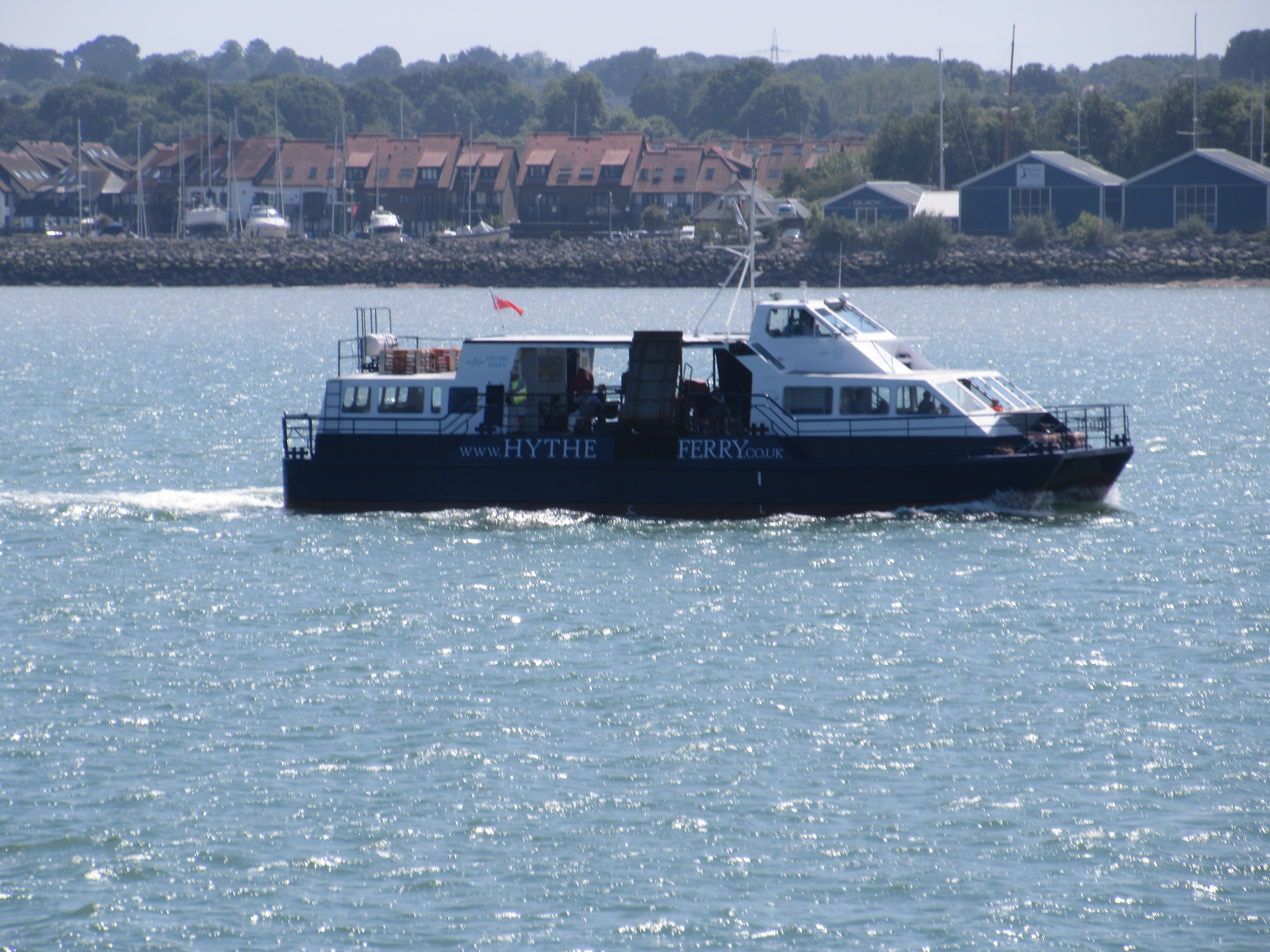 Blue Funnel Ferries Hythe Scene crossing to Southampton